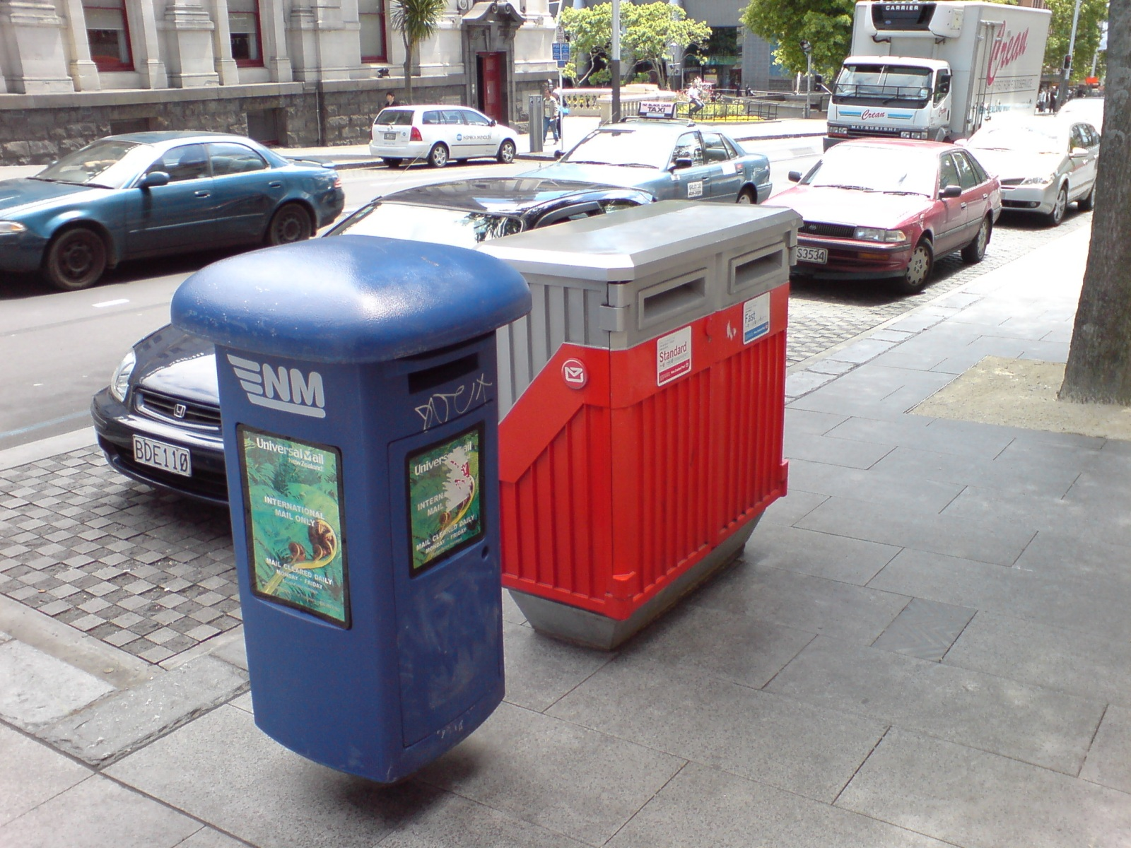 Several mailboxes (New Zealand Post and Universal Mail, a competitor's) on Queen Street, Auckland City, New Zealand.